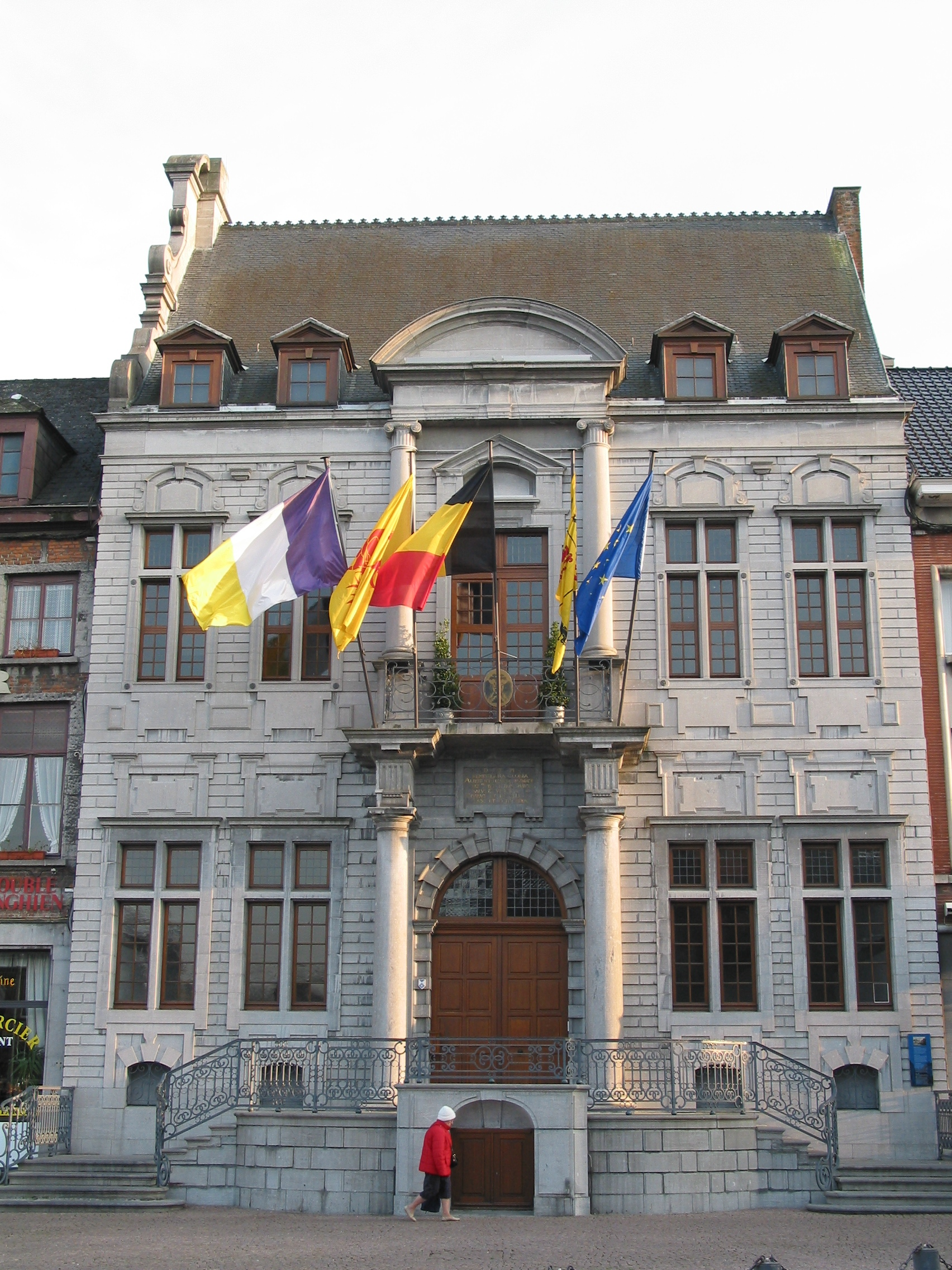 Ath (Belgium), Grand'Place – The city hall (1614/1624 – Architects: Wenceslas Coobergher and Melchior Somer).